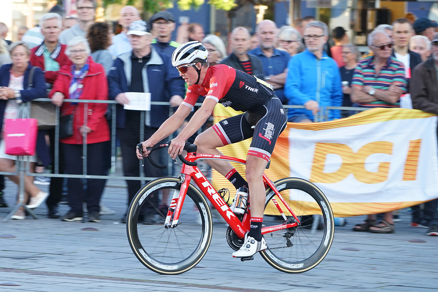 Mads Pedersen from "Trek-Sagafredo" - Danish racing cyclist at "Stjerneløbet" 14th June 2017 in Roskilde, Denmark